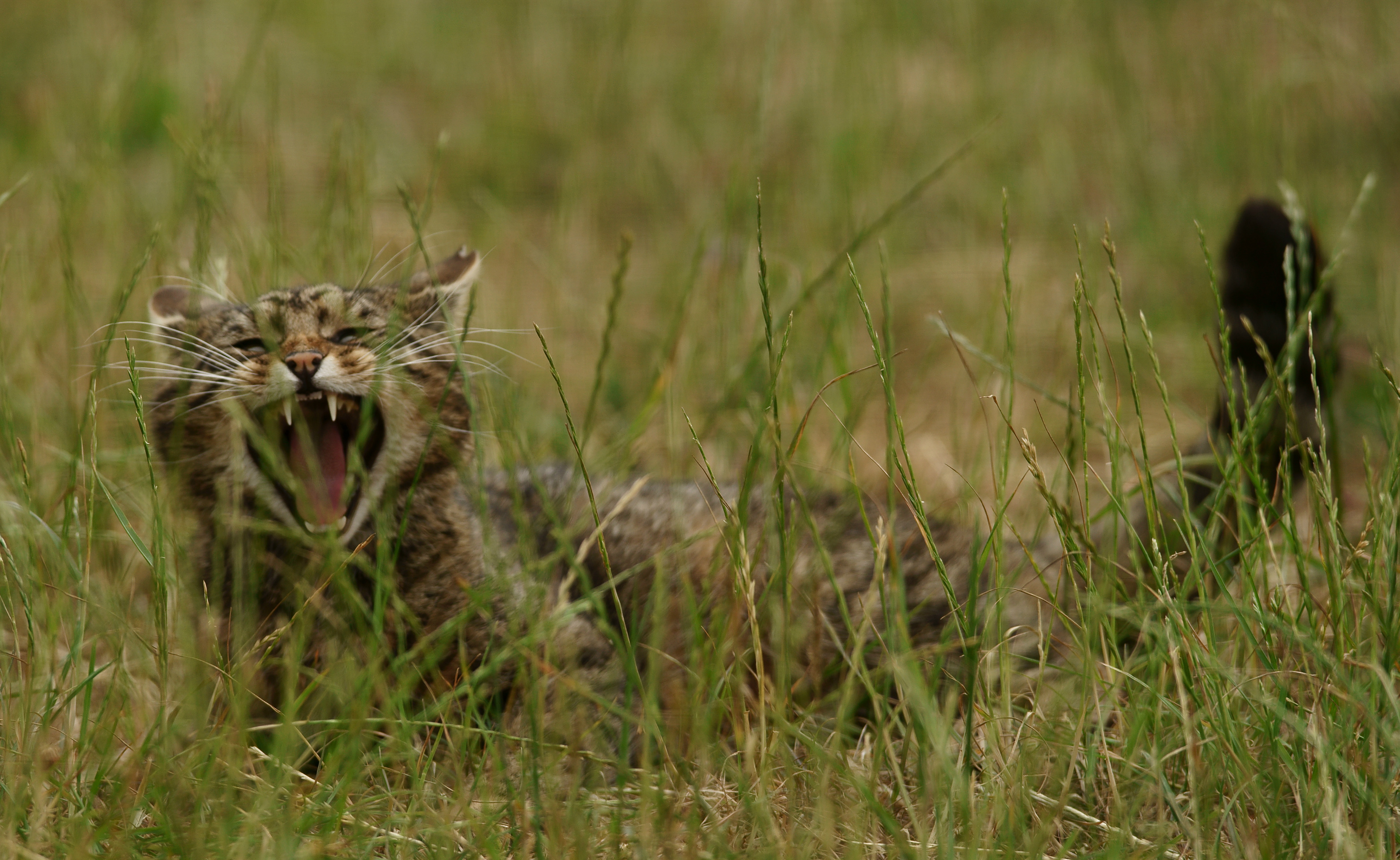 Seen at the British Wildlife Centre, Newchapel, Surrey. 'McTavish' during the Keeper's talk.